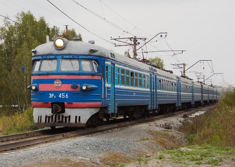 Electric multiple unit ER2-456 in Tomsk.